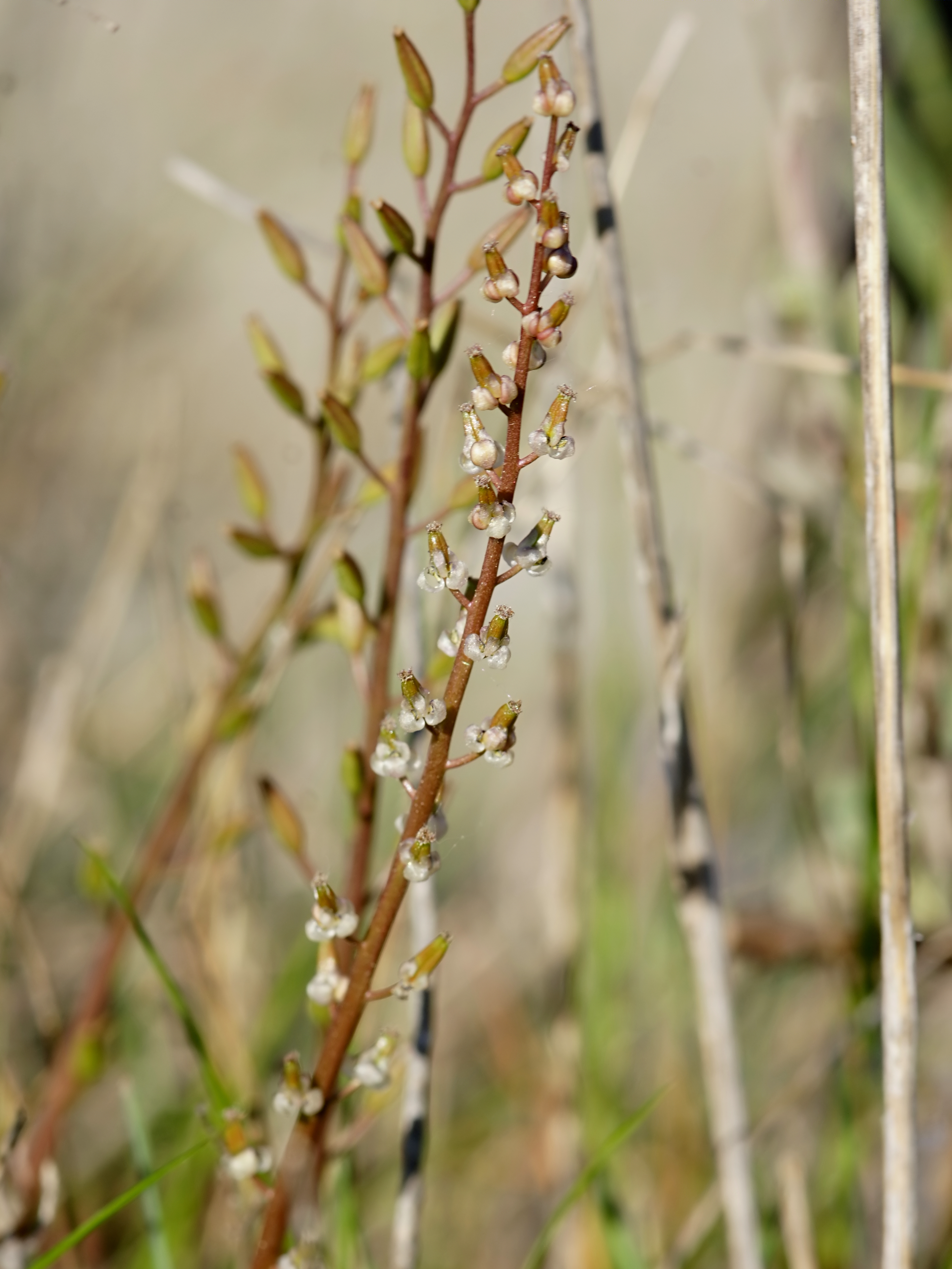 Barrelieri's Arrowgrass in the Camargue, France